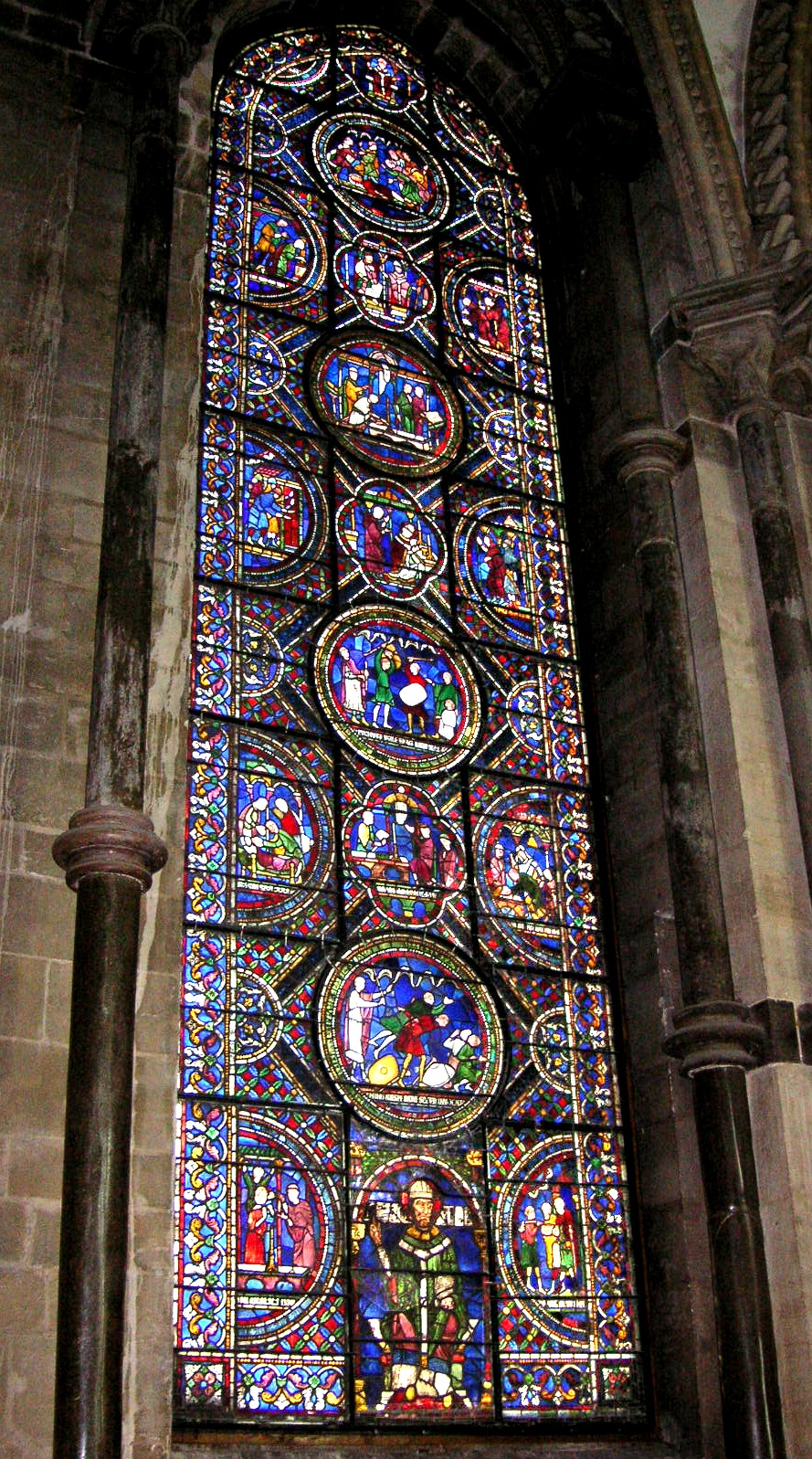 Medieval Window with image of St Thomas Becket who was murdered in the Cathedral